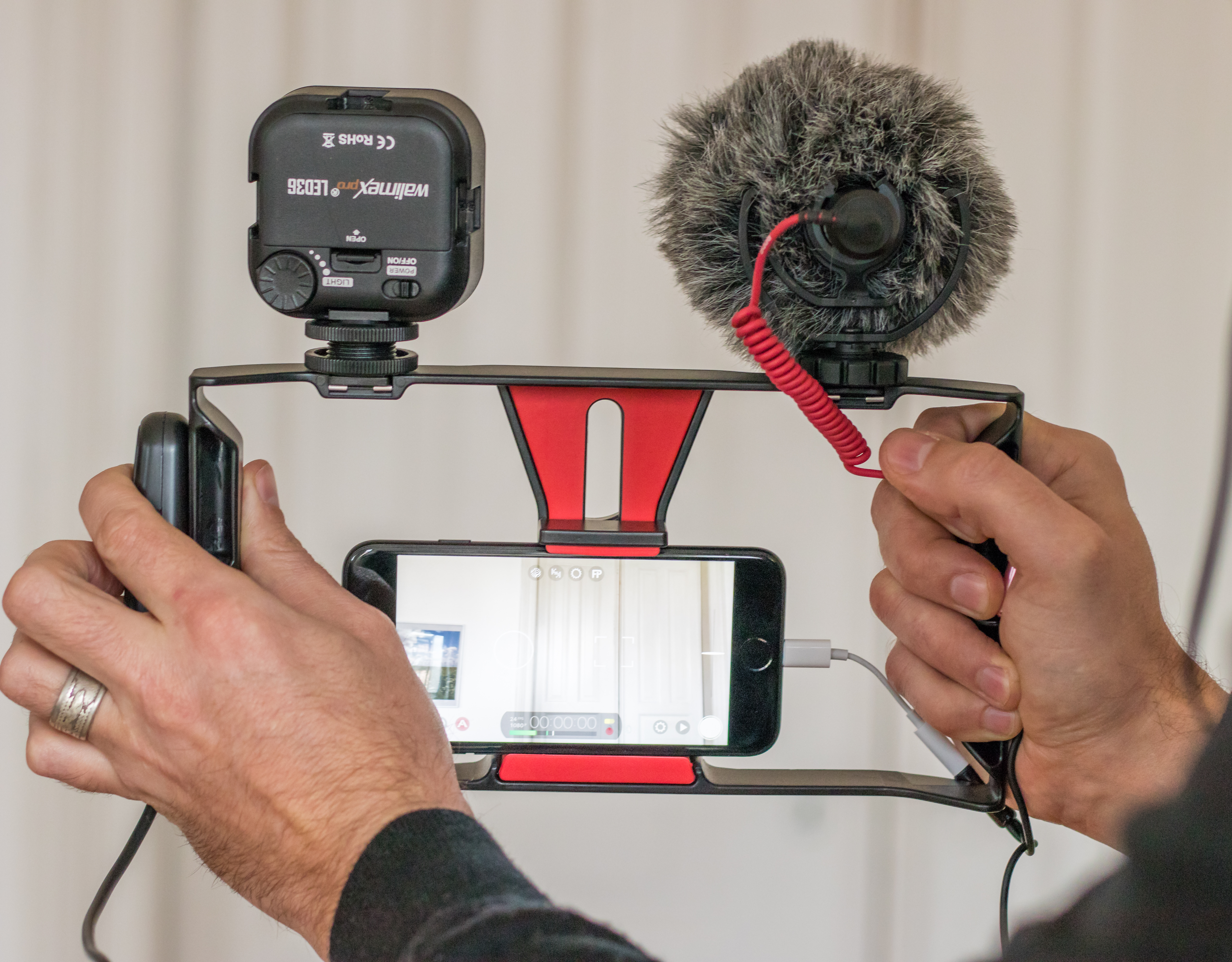 Smartphone Rig with LED light and mic for Mobile Journalism